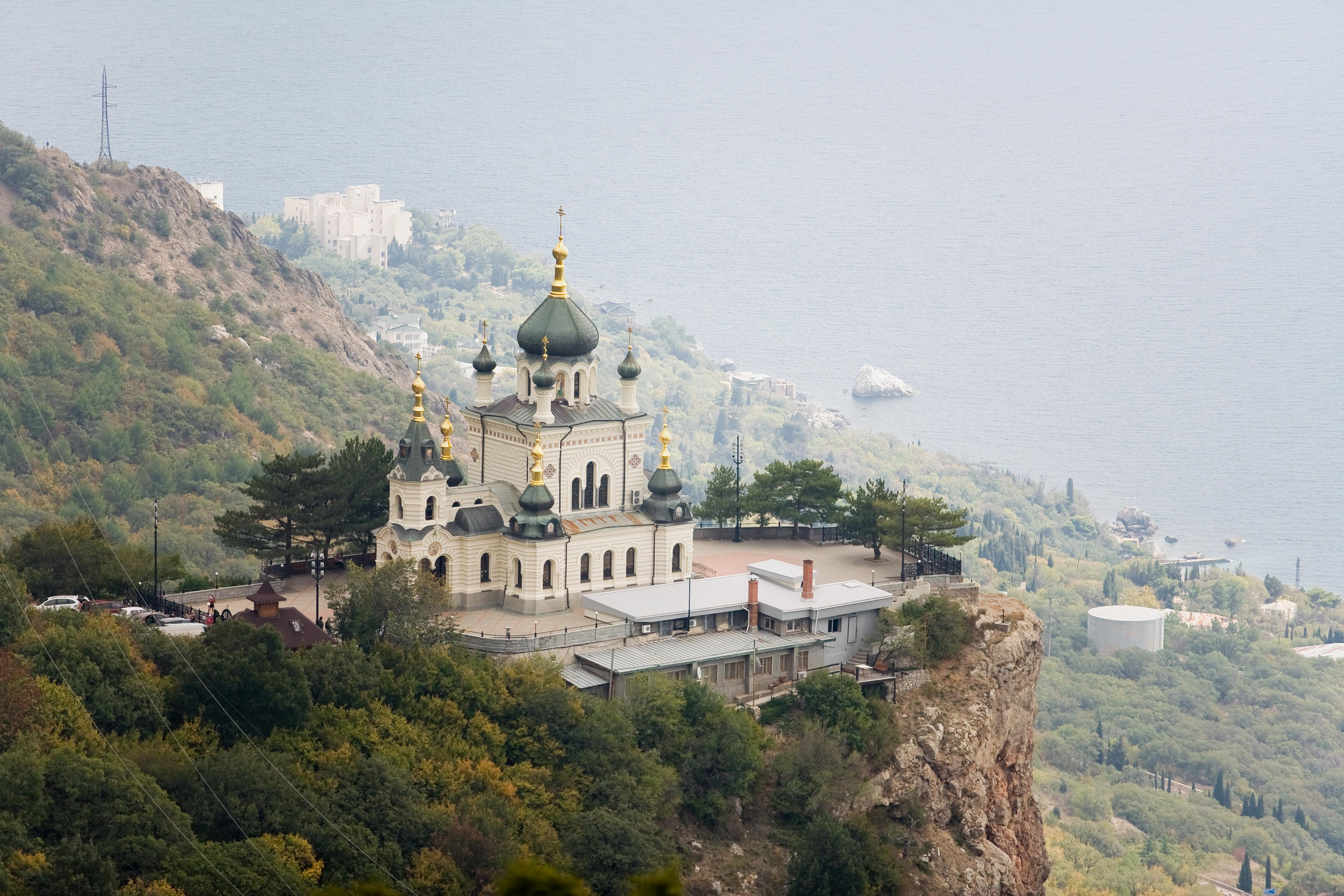 Church of Christ's Resurrection, Foros, near Baydar Gate pass, Crimea